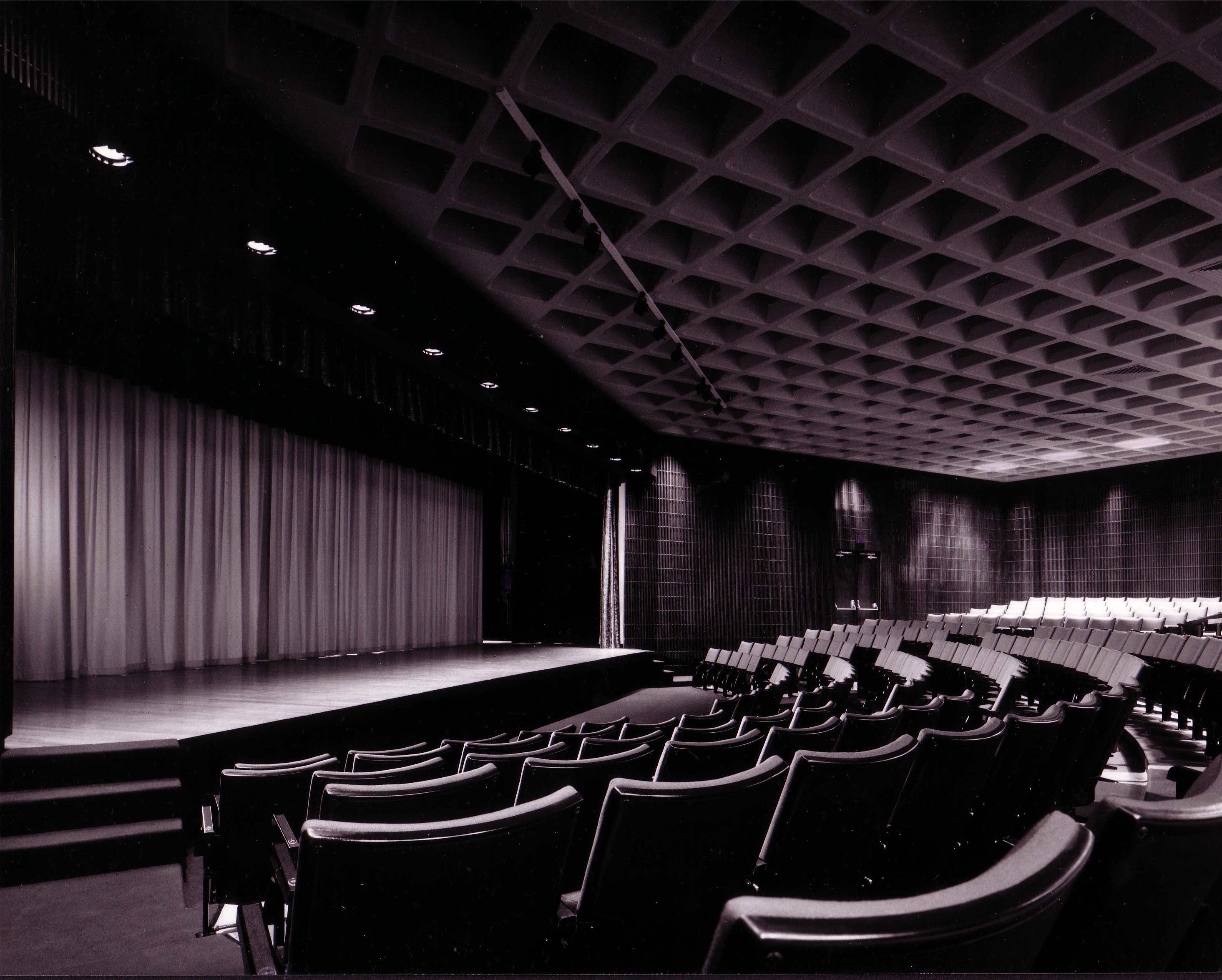 Heritage High School Theatre, Littleton, Colorado, designed by Eugene Sternberg